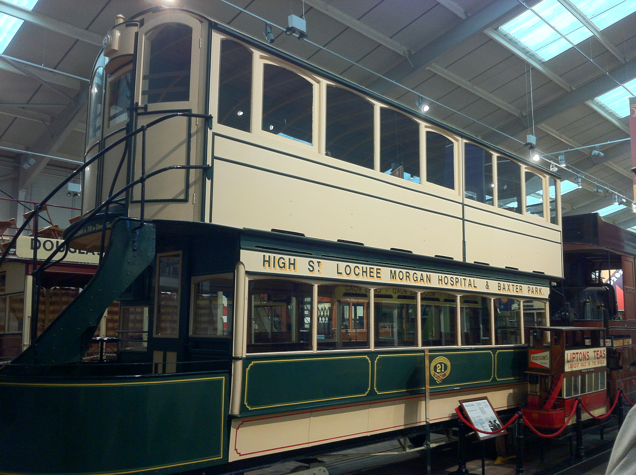 Dundee and District Tramways 21 at the National Tramway Museum, Crich, Derbyshire, UK. This is a trailer car that would have been pulled by a steam tram.